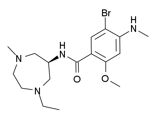 Name AS-8112 Formula C17H27BrN4O2 CAS number(isomeric) SMILESInChI 1S/C17H27BrN4O2/c1-5-22-7-6-21(3)10-12(11-22)20-17(23)13-8-14(18)15(19-2)9-16(13)24-4/h8-9,12,19H,5-7,10-11H2,1-4H3,(H,20,23)/t12-/m1/s1 standard InChIhashed InChI DALSFUWTAOKVTF-GFCCVEGCSA-N EC numberChemSpider ID 9168209